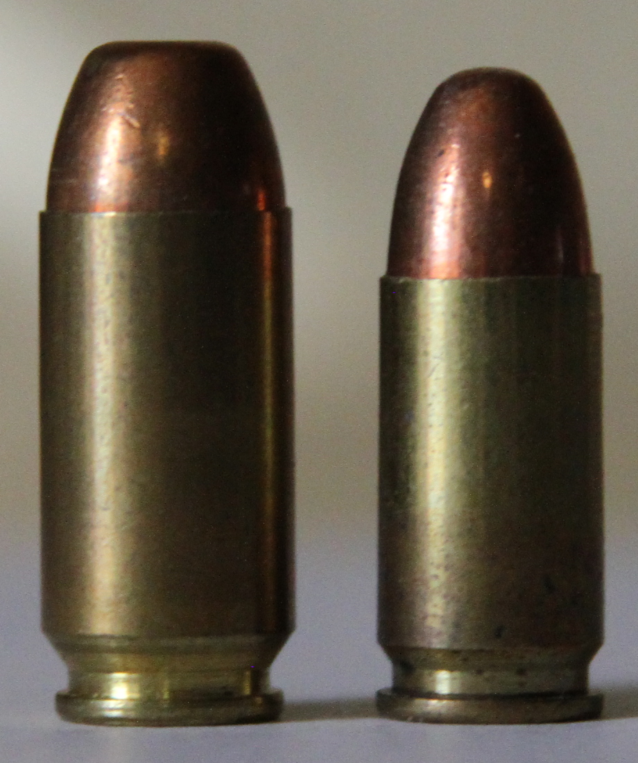 .41 Action Express cartridge on the left and a 9x19mm Parebellum cartridge on the right.